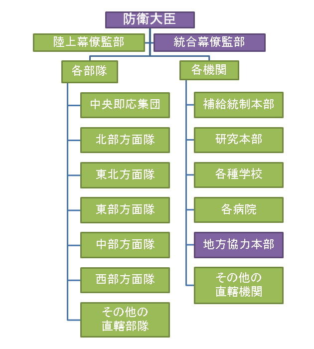 The Order of battle of the Japan Ground Self-Defense Force.